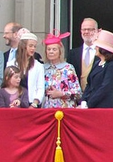 Lady Amelia Windsor with her grandmother at Trooping the Colour 2012.